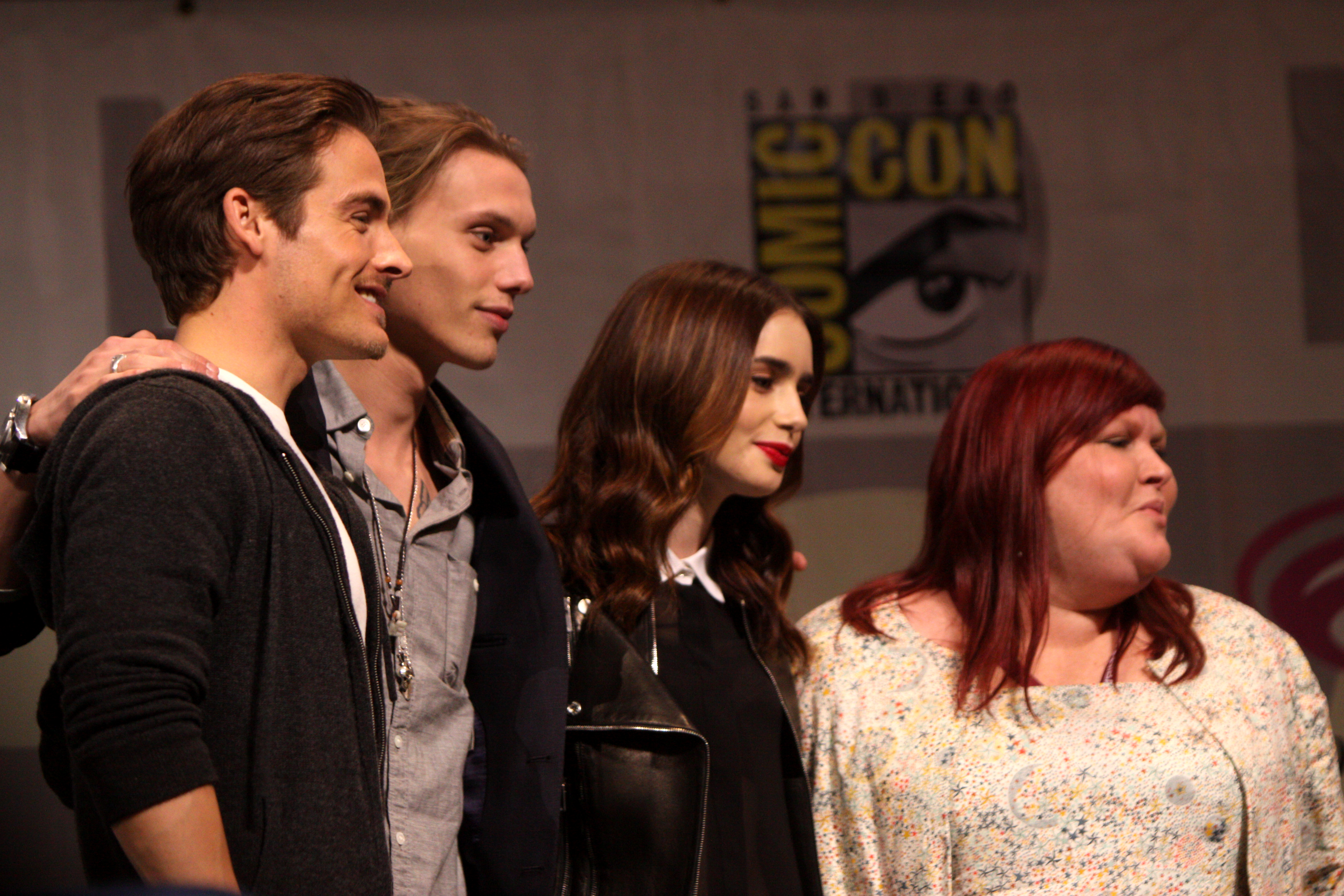 Kevin Zegers, Jamie Campbell Bower, Lily Collins and Cassandra Clare speaking at the 2013 WonderCon at the Anaheim Convention Center in Anaheim, California.